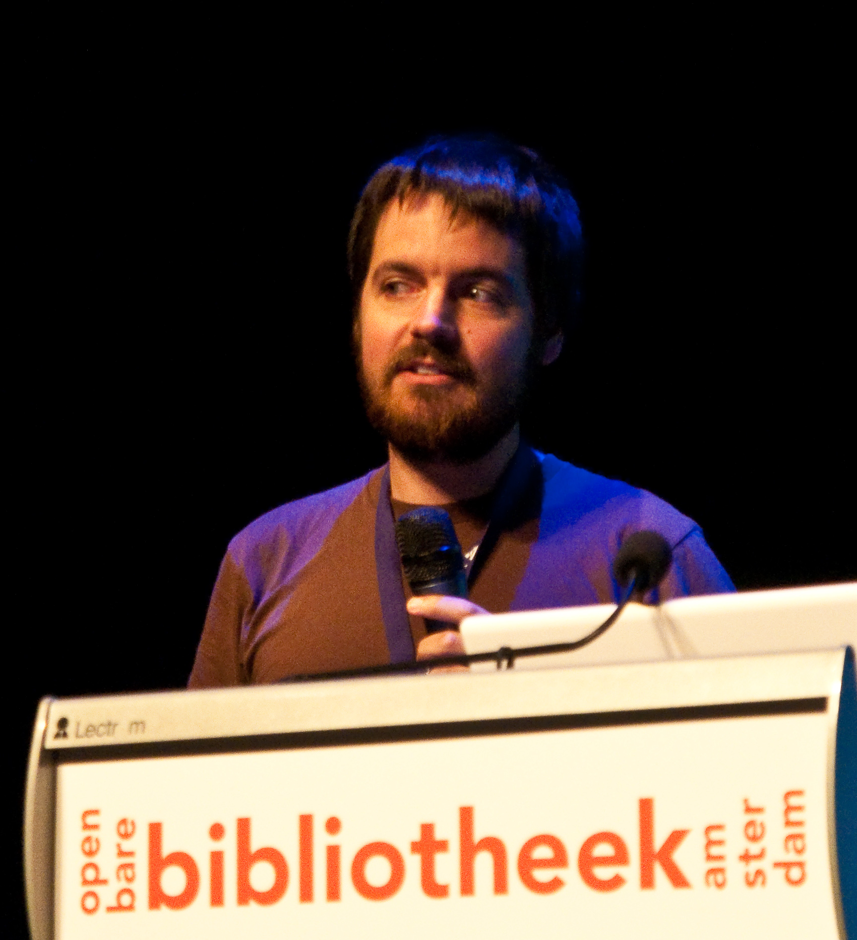 Moderator Nathaniel Tkacz (AU) at the CPoV Wikipedia Conference, Amsterdam, March 2010